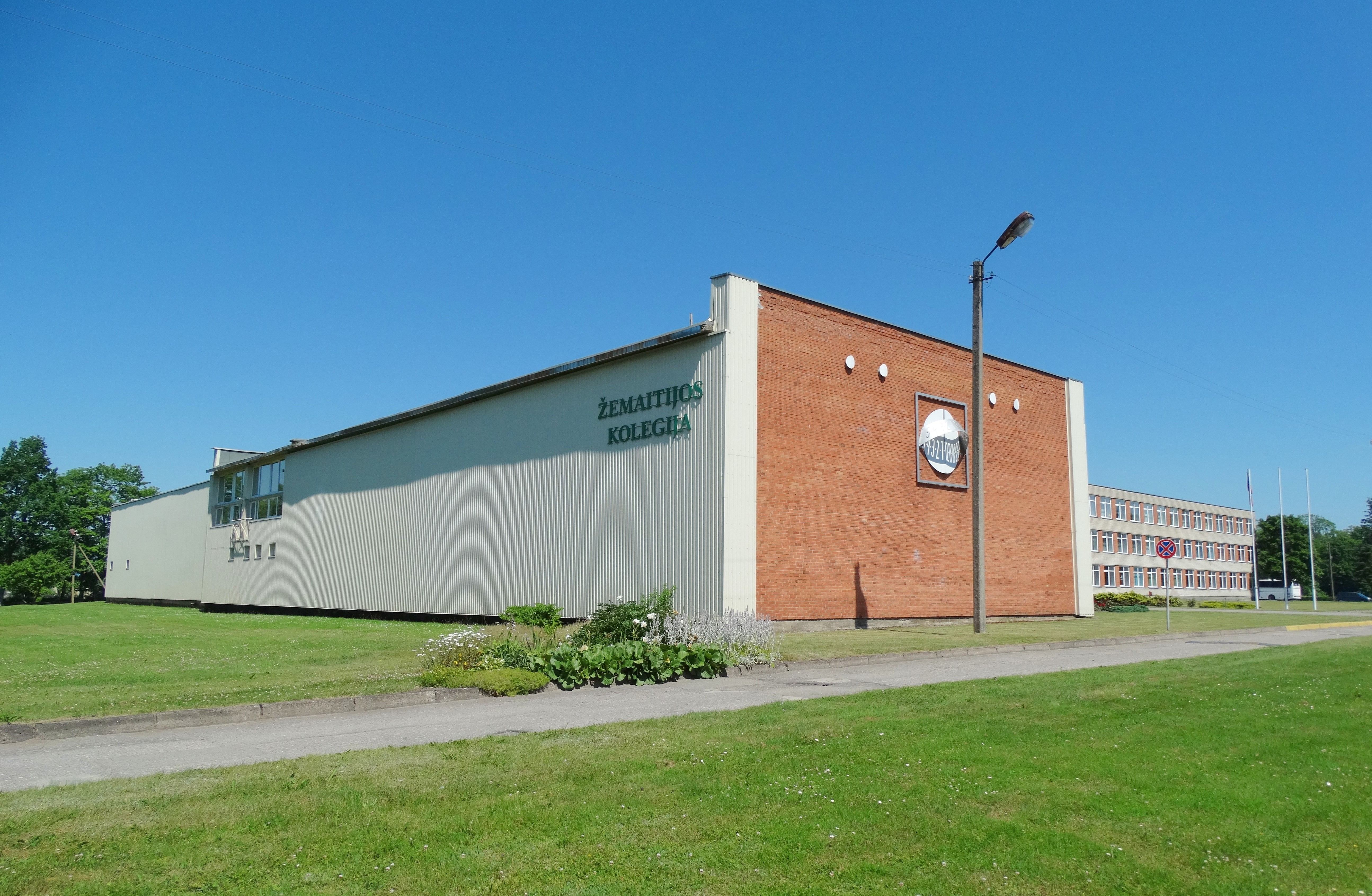 Žemaitija College, Rietavas, Lithuania